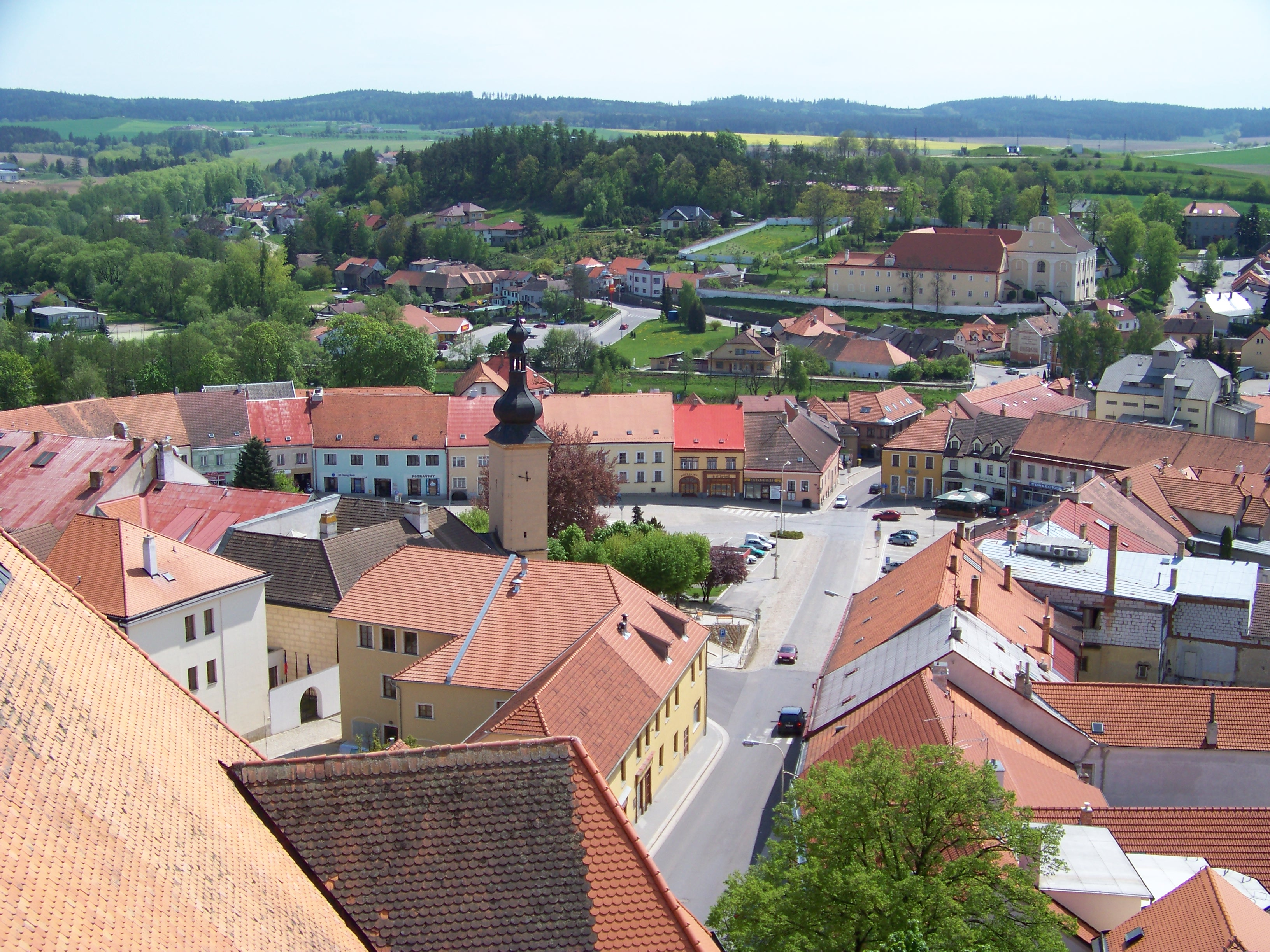 Dačice, South Bohemian Region, the Czech Republic. A view from city tower.